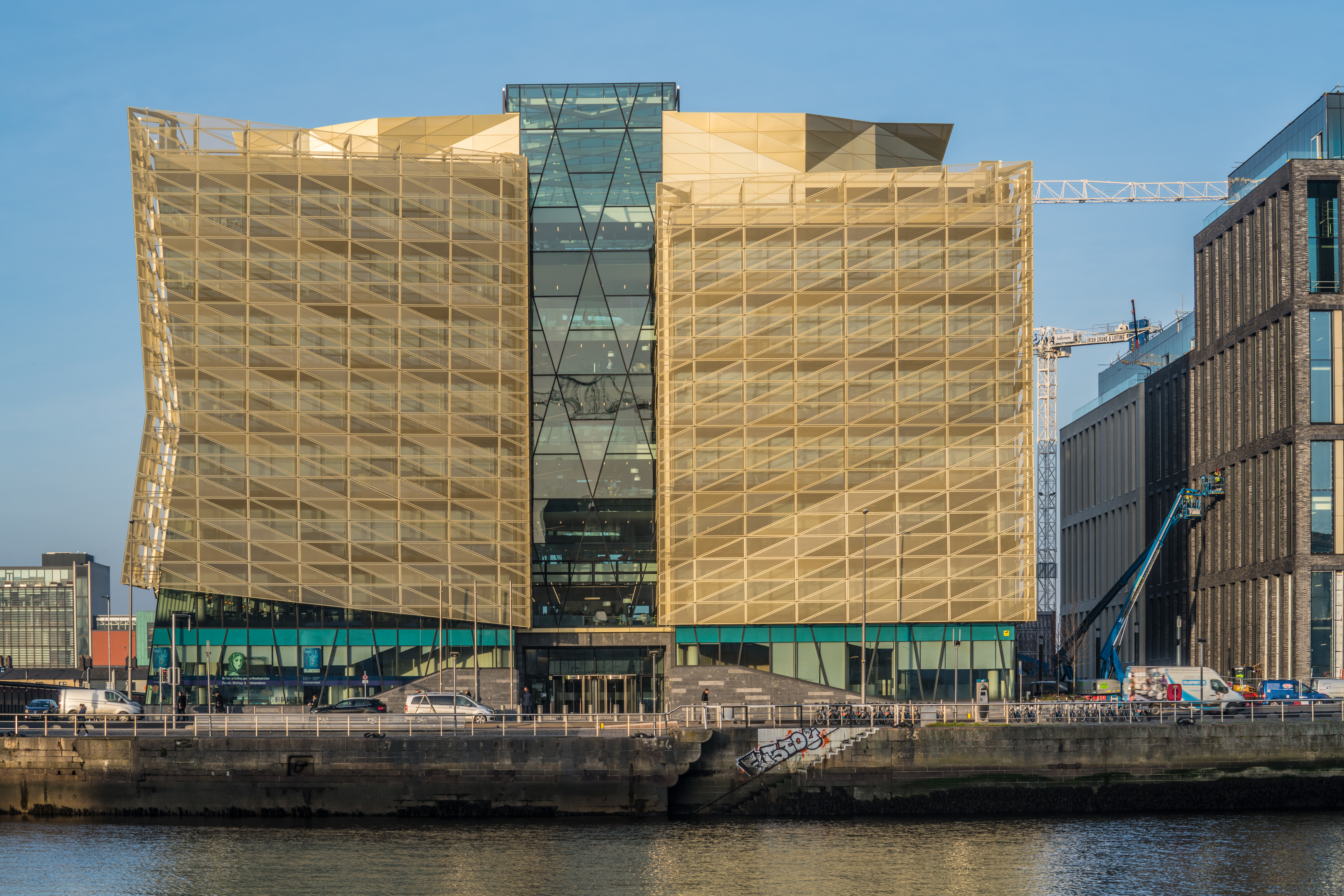 The Central Bank of Ireland is Ireland's central bank, and as such part of the European System of Central Banks (ESCB). It is also the country's financial services regulator for most categories of financial firms. It was the issuer of Irish pound banknotes and coinage until the introduction of the euro currency, and now provides this service for the European Central Bank. The Central Bank was founded on 1 February 1943 and since 1 January 1972 has been the banker of the Government of Ireland in accordance with the Central Bank Act 1971,which can be seen in legislative terms as completing the long transition from a currency board to a fully functional central bank. Its head office was located on Dame Street, Dublin from 1979 until 2017. Its offices at Iveagh Court and College Green also closed down at the same time. Since March 2017, its headquarters are located on North Wall Quay, where the public may exchange non-current Irish coinage and currency (both pre- and post-decimalization) for euros, as well as High Value Euro Currency Bank Notes and Mutilated Currency. It also operates from premises at nearby Spencer Dock. The Currency Centre at Sandyford is the currency manufacture, warehouse and distribution site of the bank.